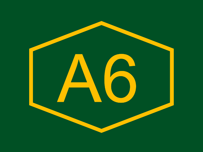 A6 highway logo Cyprus